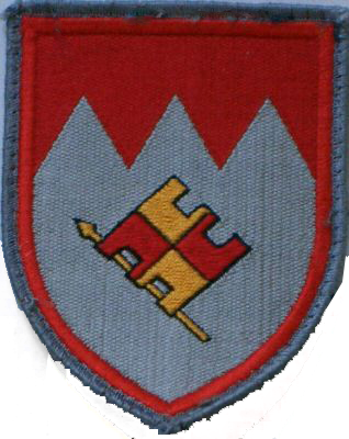 coat of arms of the Bundeswehr (Armed Forces of the Federal Republic of Germany). → Remarks on naming and categorization scheme